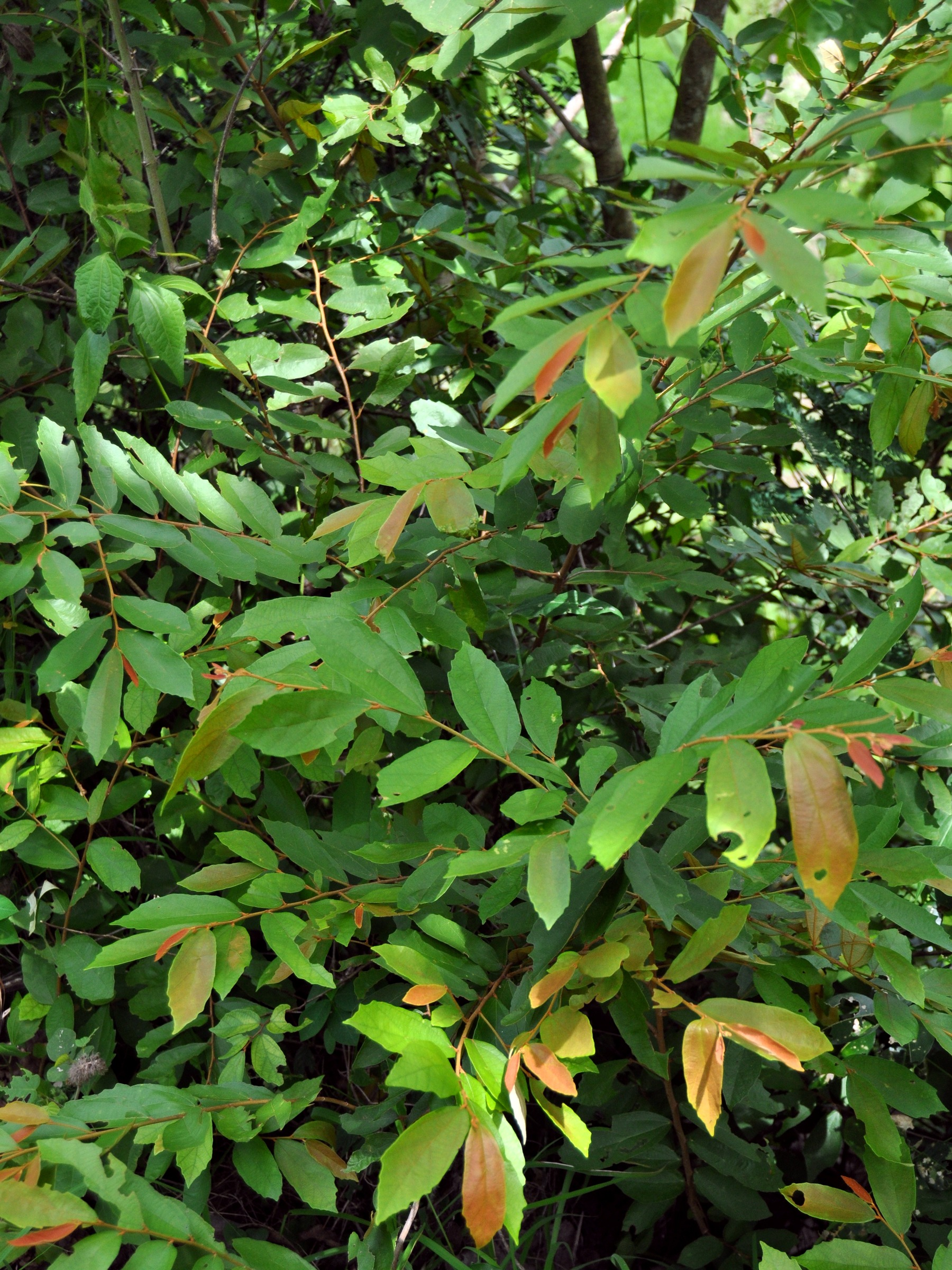 Schoutenia ovata. From Ngawi, East Java, Indonesia.